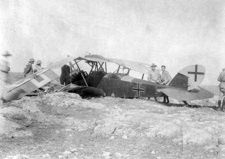 A German LVG C.V reconnaissance aircraft brought down in Palestine by Australian Flying Corps Officers Brown and Finlay, who are standing behind the rear of the aircraft, on 22 August 1918. The aircraft was brought back to Australia post war and became part of the collection of the Australian War Memorial. It was probably later scrapped.